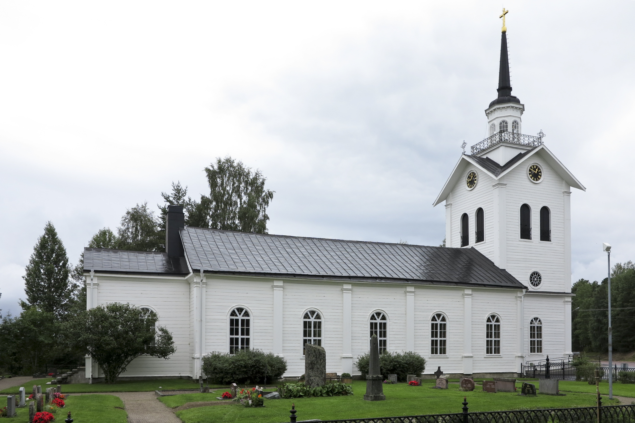 Ramsjö kyrka, Diocese of Uppsala, Ramsjö, Sweden.